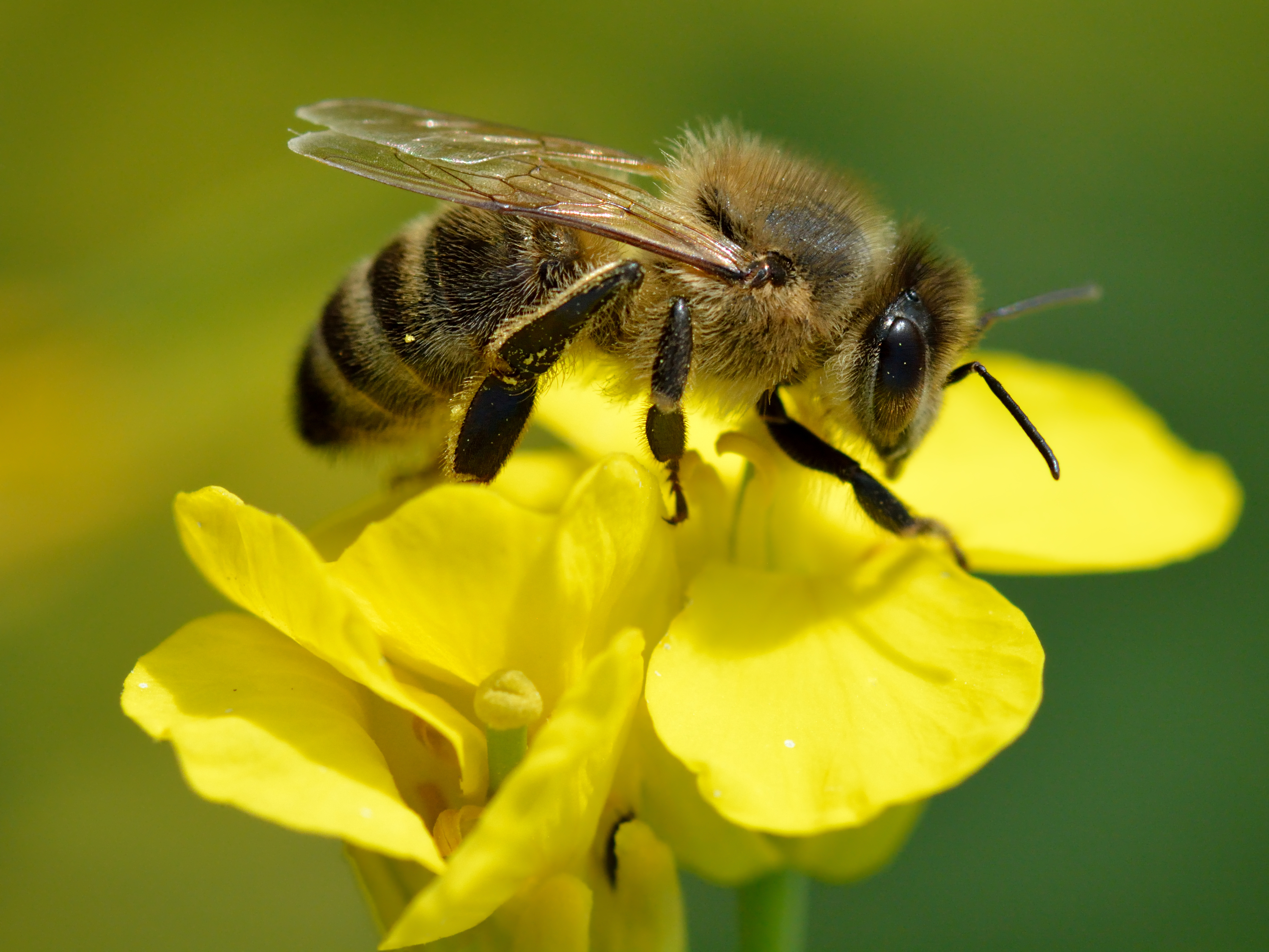 Honey bee (Apis mellifera) pollinates rapeseed (Brassica napus) blossom. Valingu, Northwestern Estonia. Honey bees play a predominant role in increasing the yield of rapeseed.